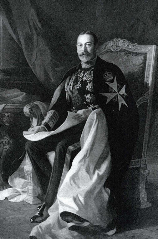 Portrait of HM King George V of the United Kingdom. He is shown wearing his robes as Sovereign Head of the Most Venerable of the Hospital of Saint John of Jerusalem.